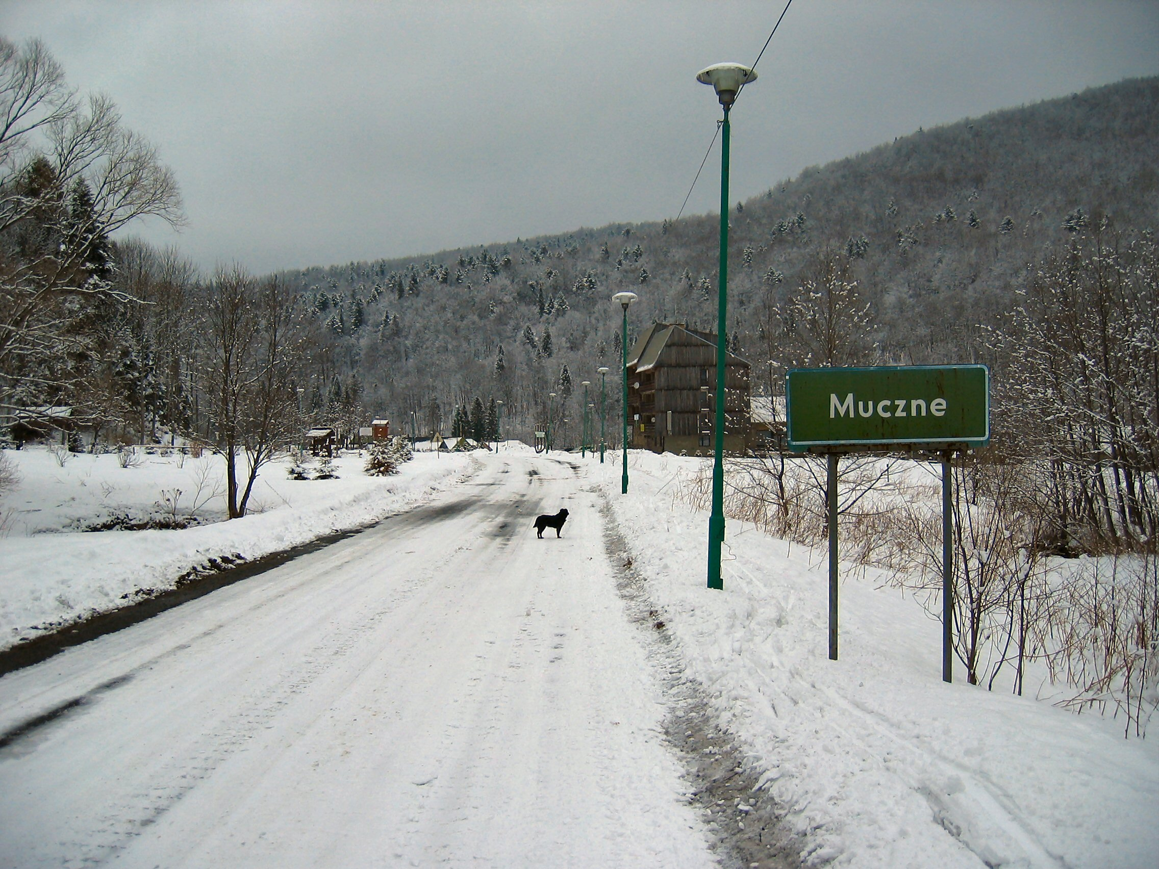 Village of Muczne, Gmina Lutowiska, in winter